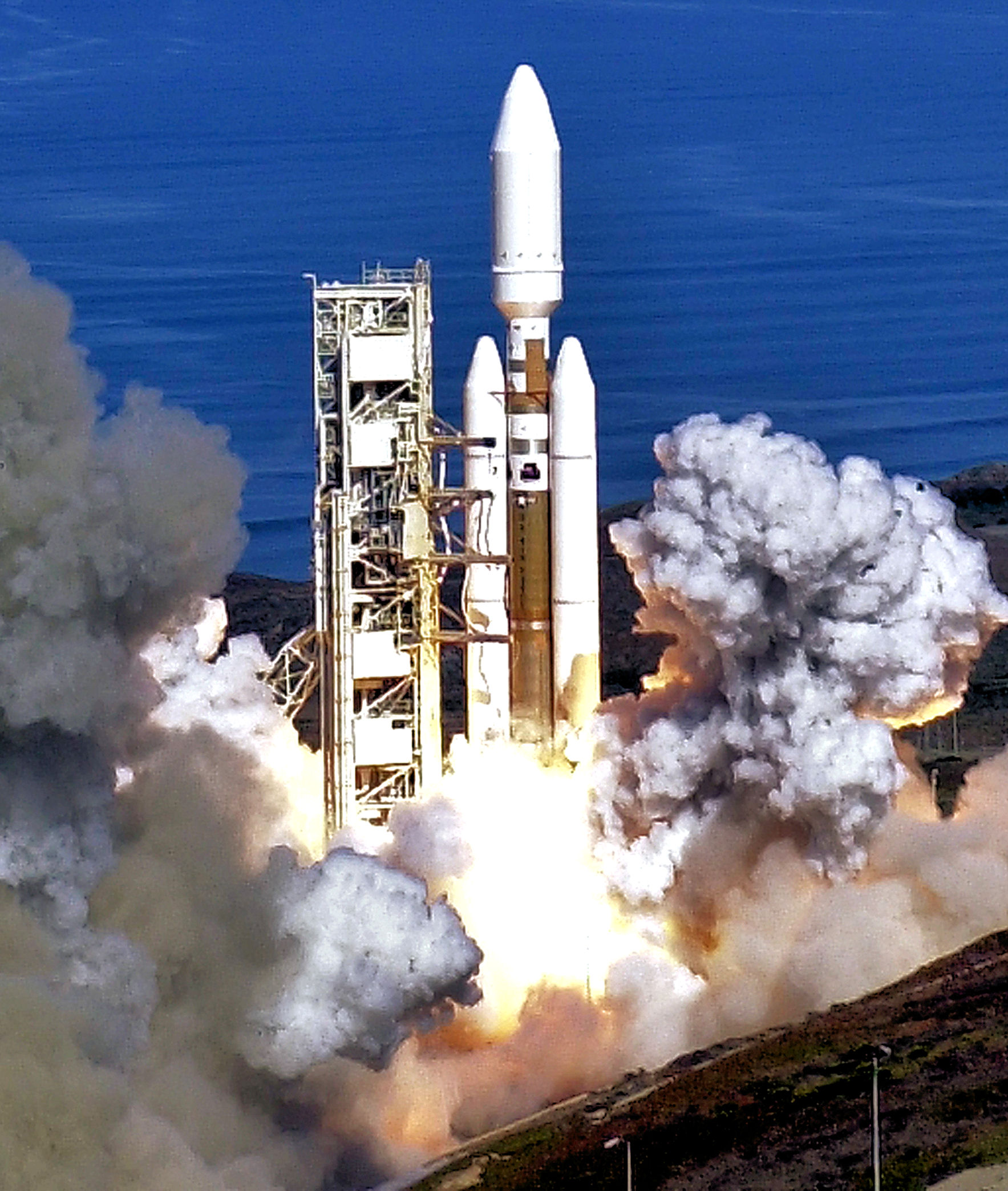 A Titan IV rocket launches from Vandenberg AFB SLC-4, 19 October 2005, carrying USA-186, a KH-12 reconnaissance satellite. The rocket is the largest unmanned space booster used by the Air Force. The vehicle carries payloads equivalent to the size and weight of those carried on the space shuttle.